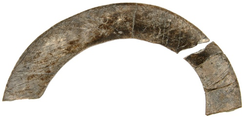 Ivory artifacts from the Upper Paleolithic cave site Magdalenahöhle, Germany.